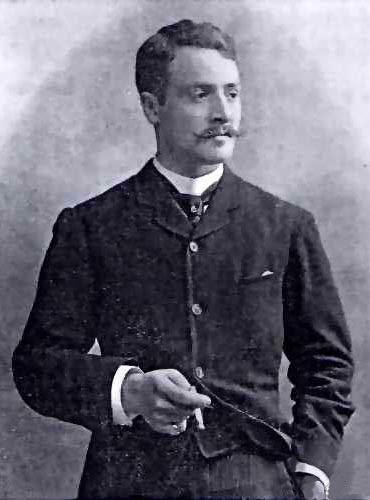 Portrait of photographer Ostrorog, the younger